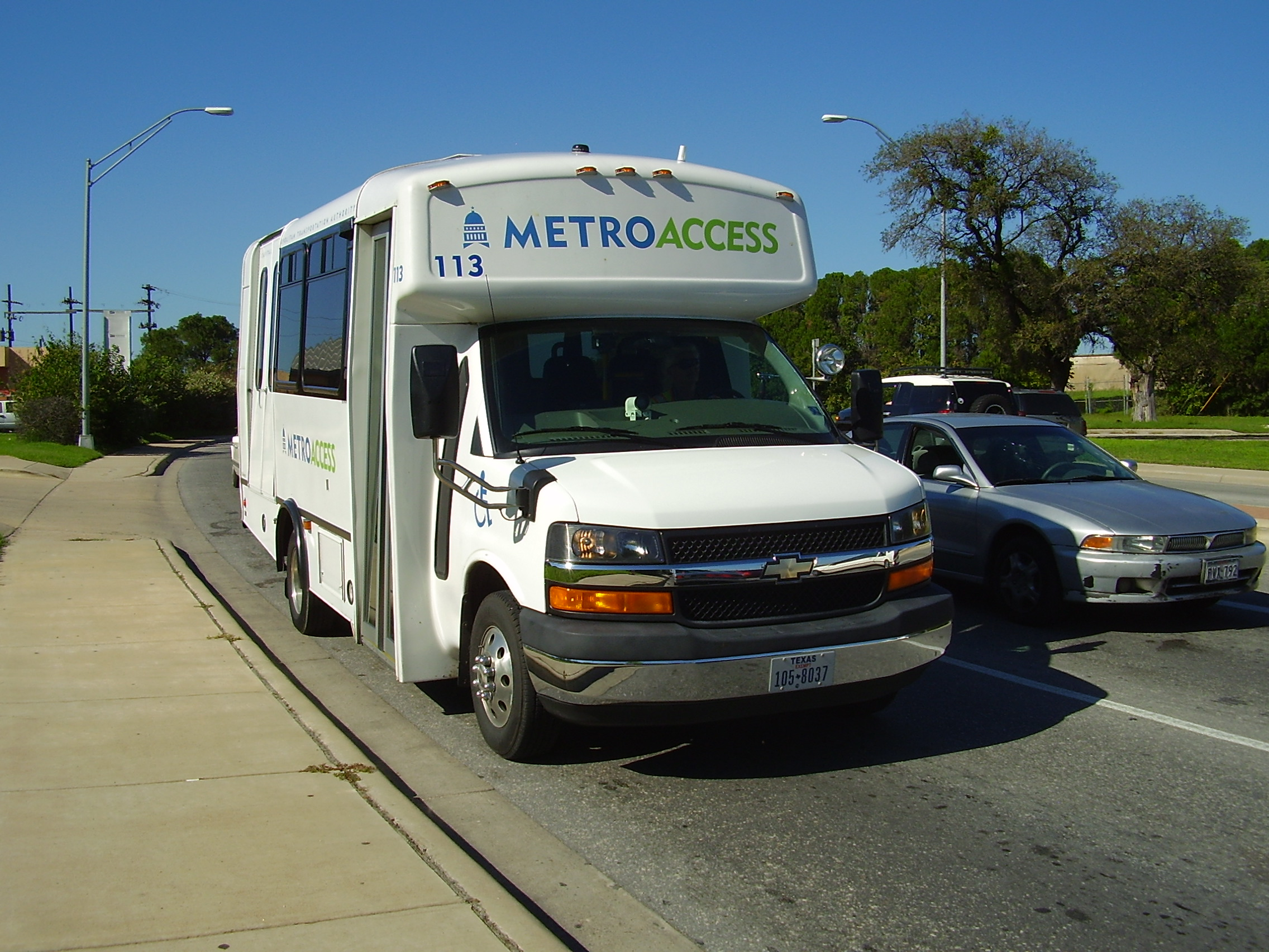 METRO Access of Capital Metro